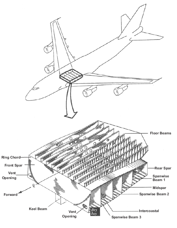 Schematic/location of center wing fuel tank of a 747